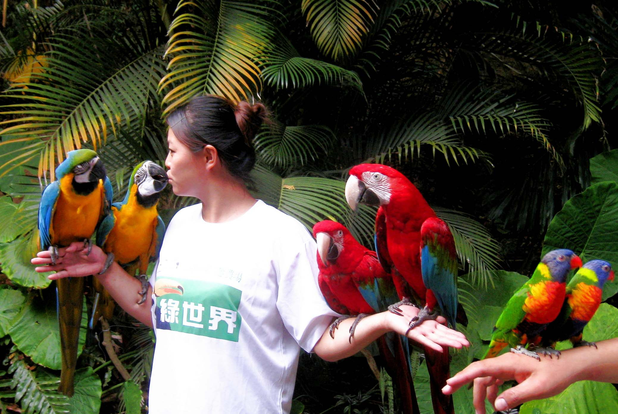 Macaws in Green World Ecological Farm. They are very smart animals.